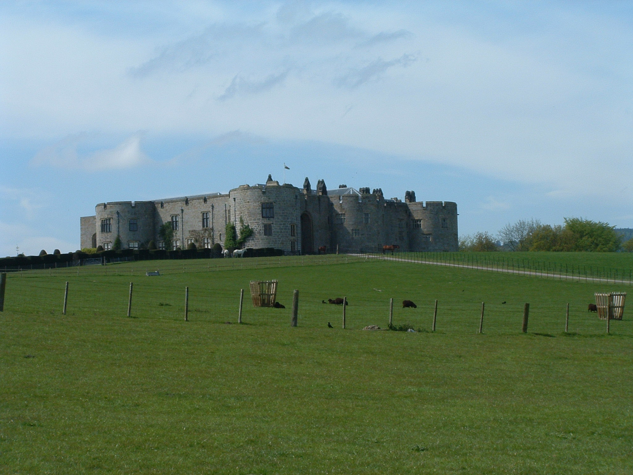 Overview of Castle Chirk Photo made by uploader, Akke.